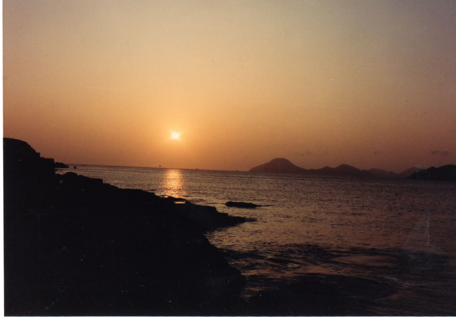 Saturday, 22 May 2009, 09:49:33 a.m.